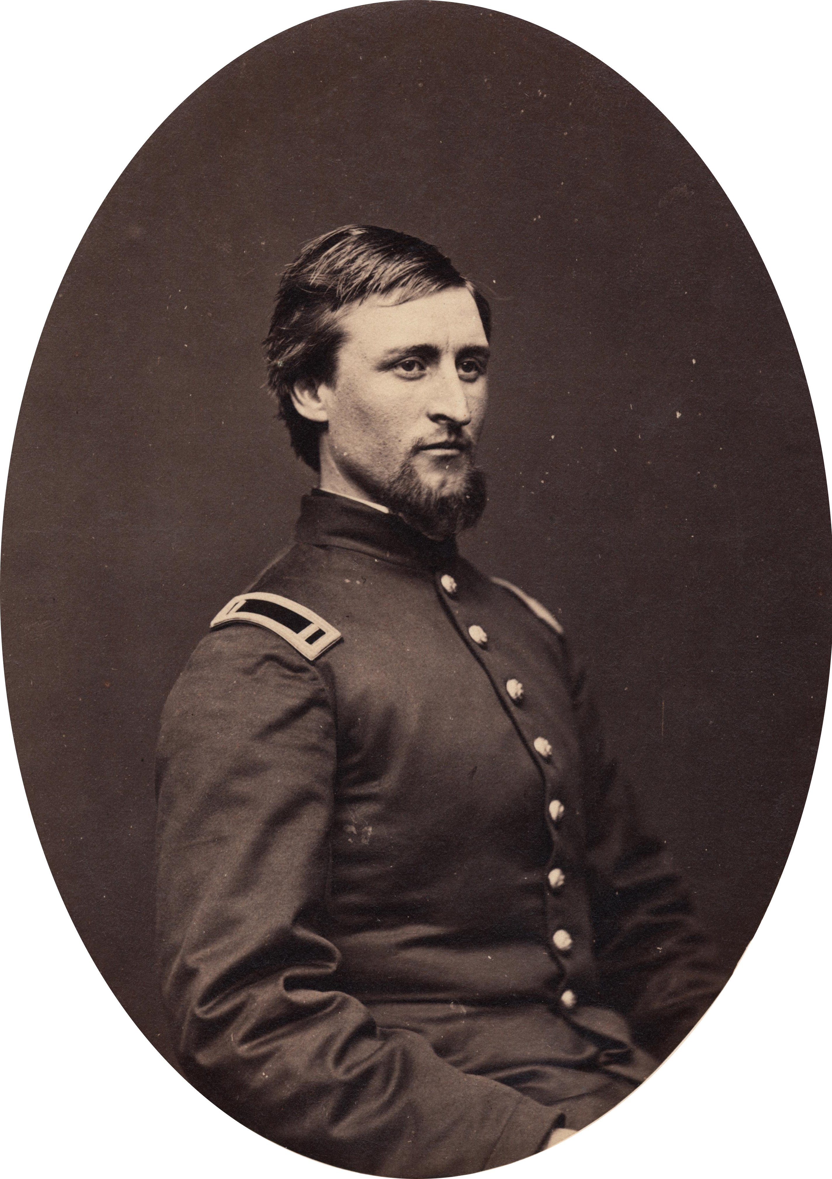 Richard Cutts Shannon